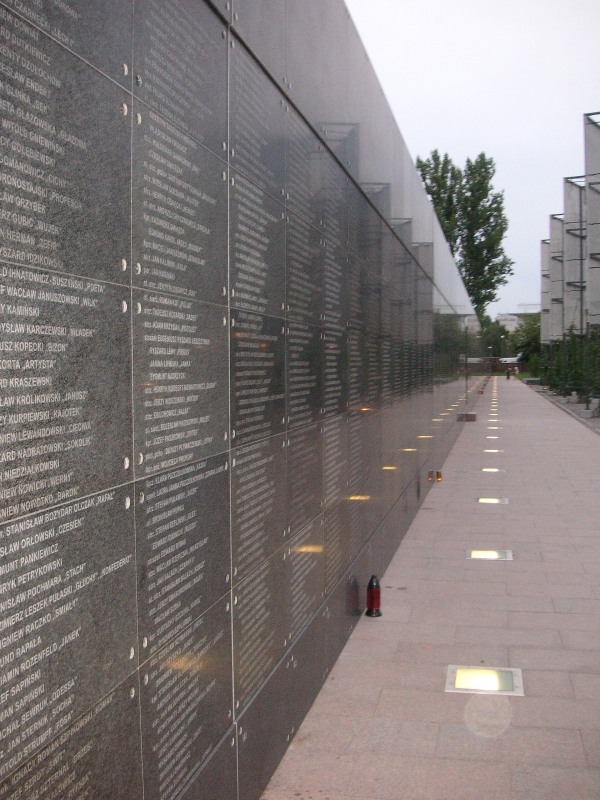 made during a summer day in Warsaw's Museum of the Warsaw Rising; Memorial wall in the Warsaw Rising Museum